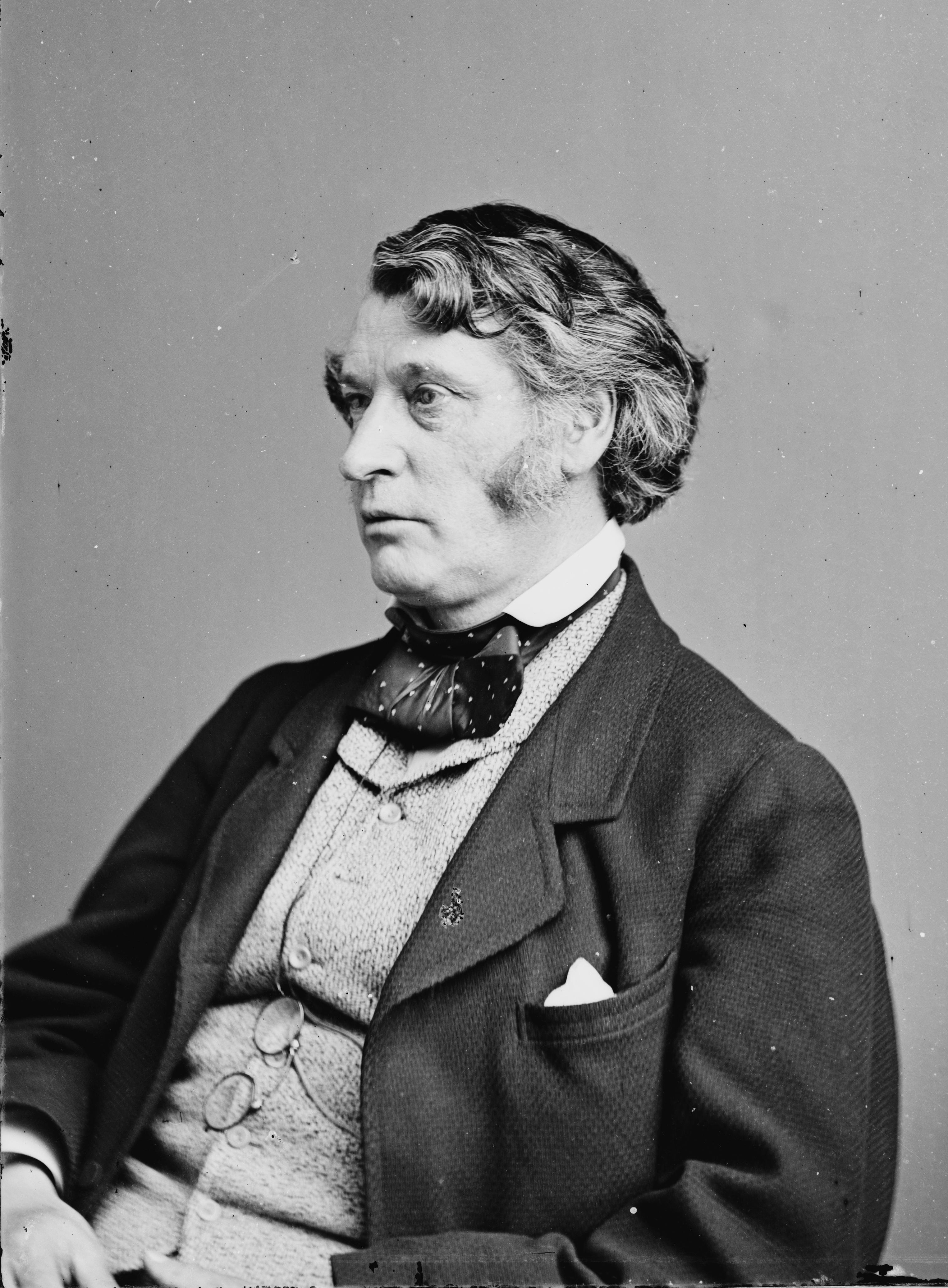 Charles Sumner. Library of Congress description: "Charles Sumner"